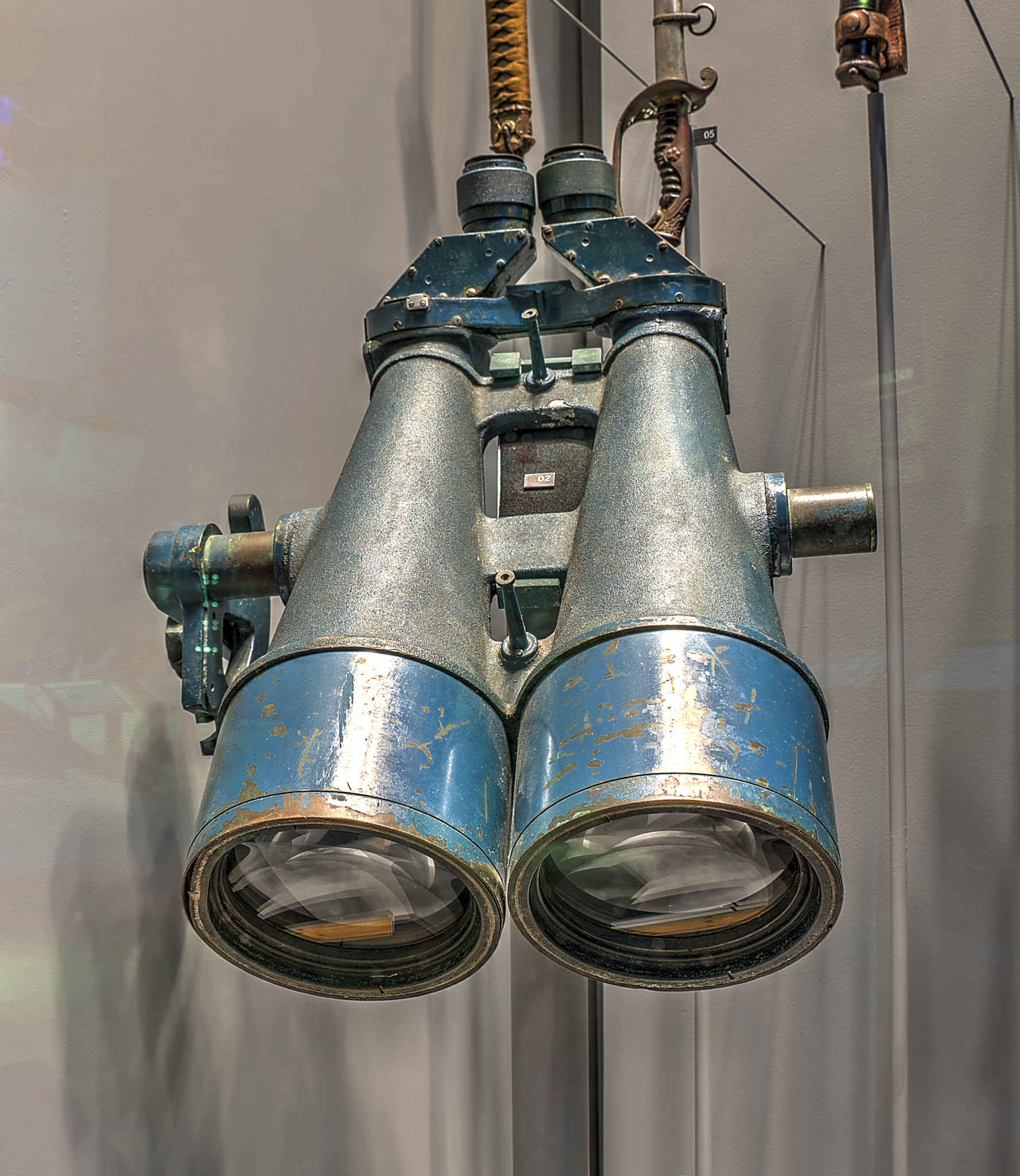 binoculars from the battleship Nagato